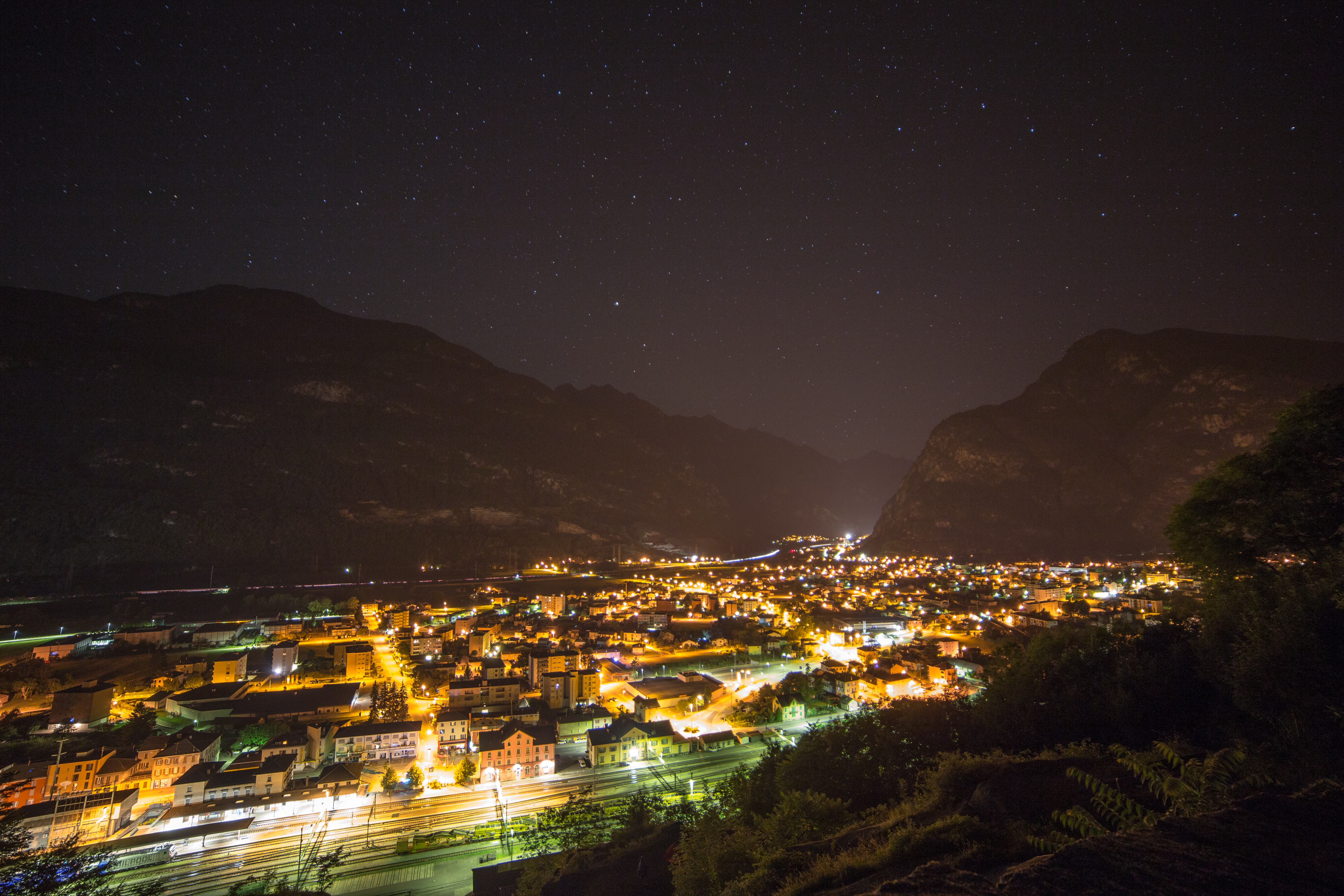 Biasca at night